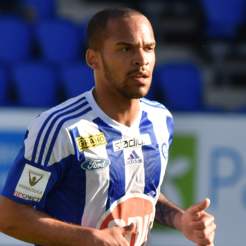 Football player Nikolai Alho (HJK)